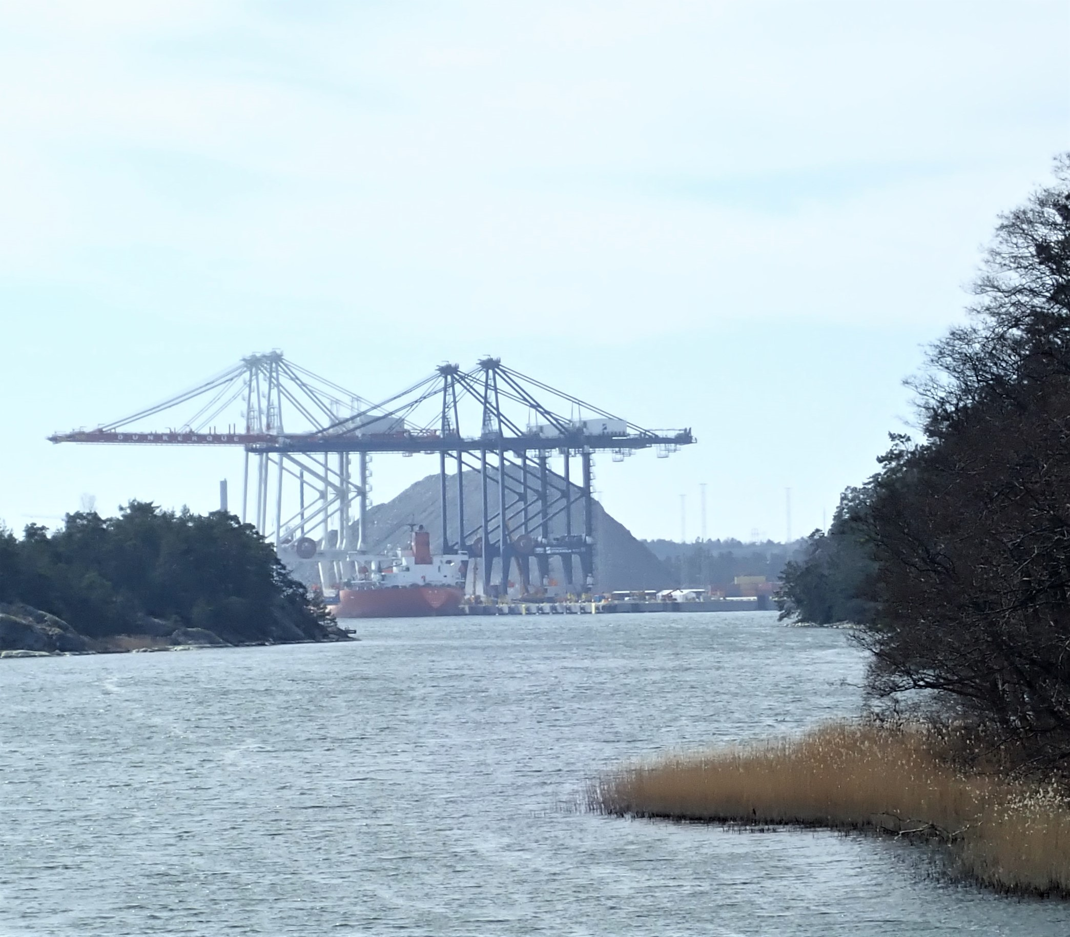 M/S Zhen Hua 32 at Stockholm Norvik Port in Nynäshamn, after just having offloaded two super postpanamax cranes from China. The two red cranes on the left will be delivered at the port of Dunqerque in France. March 24, 2020.